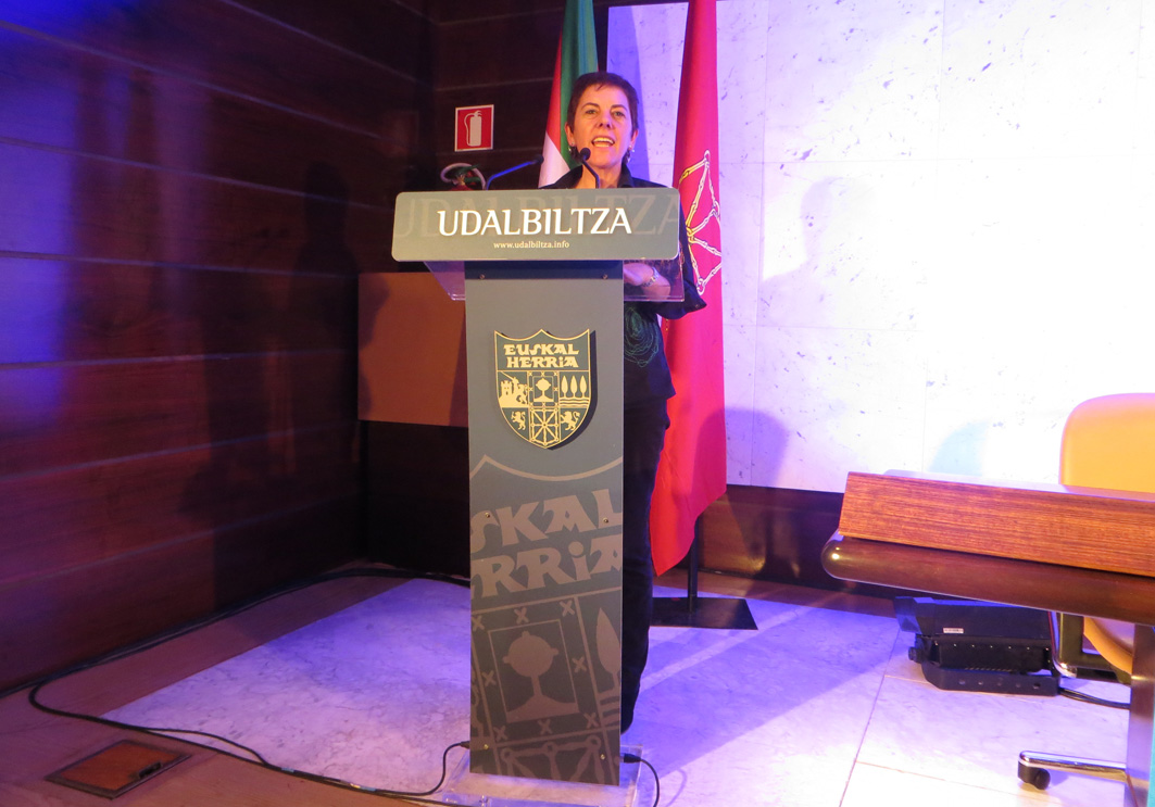 Mertxe Aizpurua